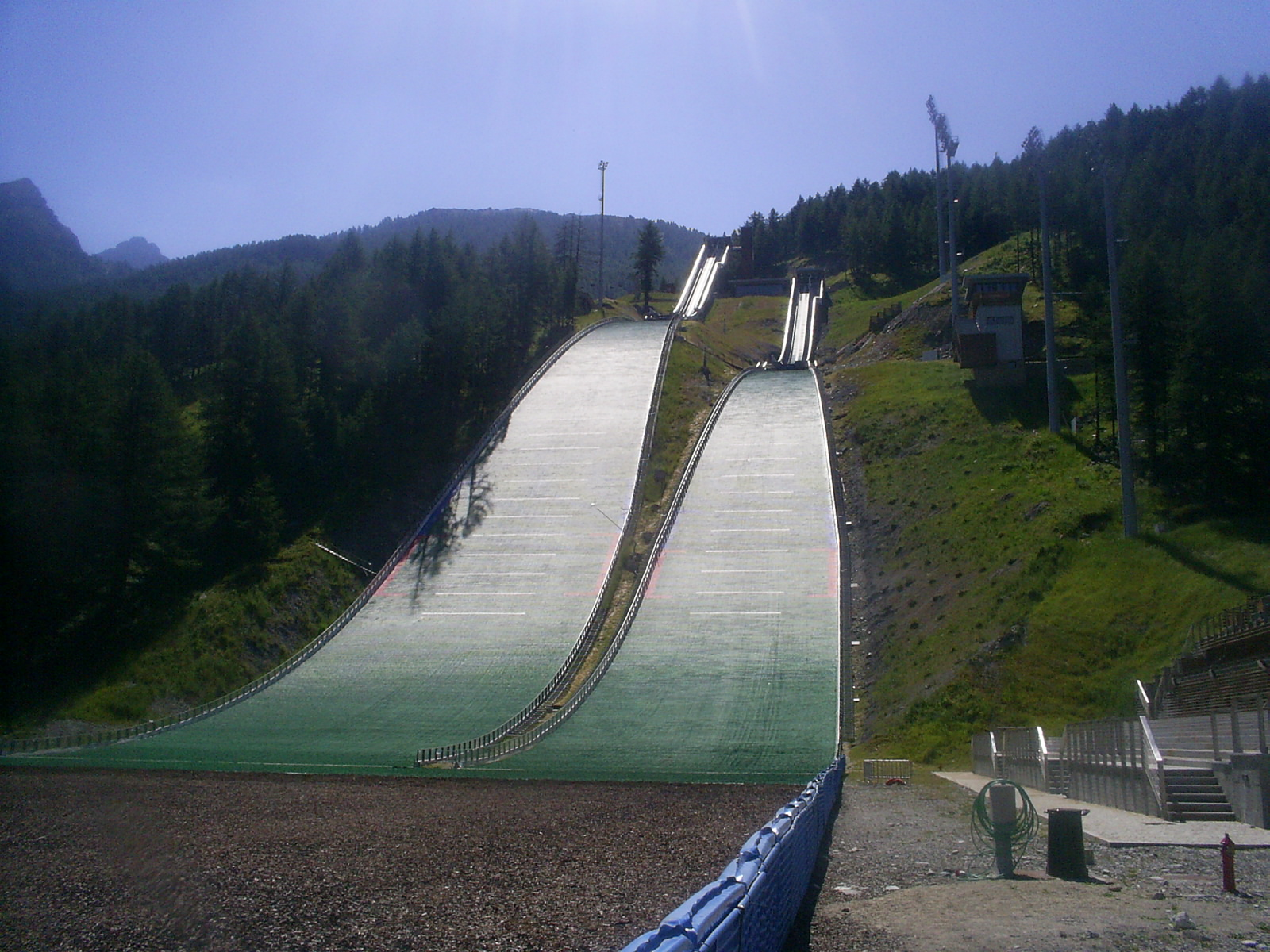 Pragelato Ski Jumping Hills